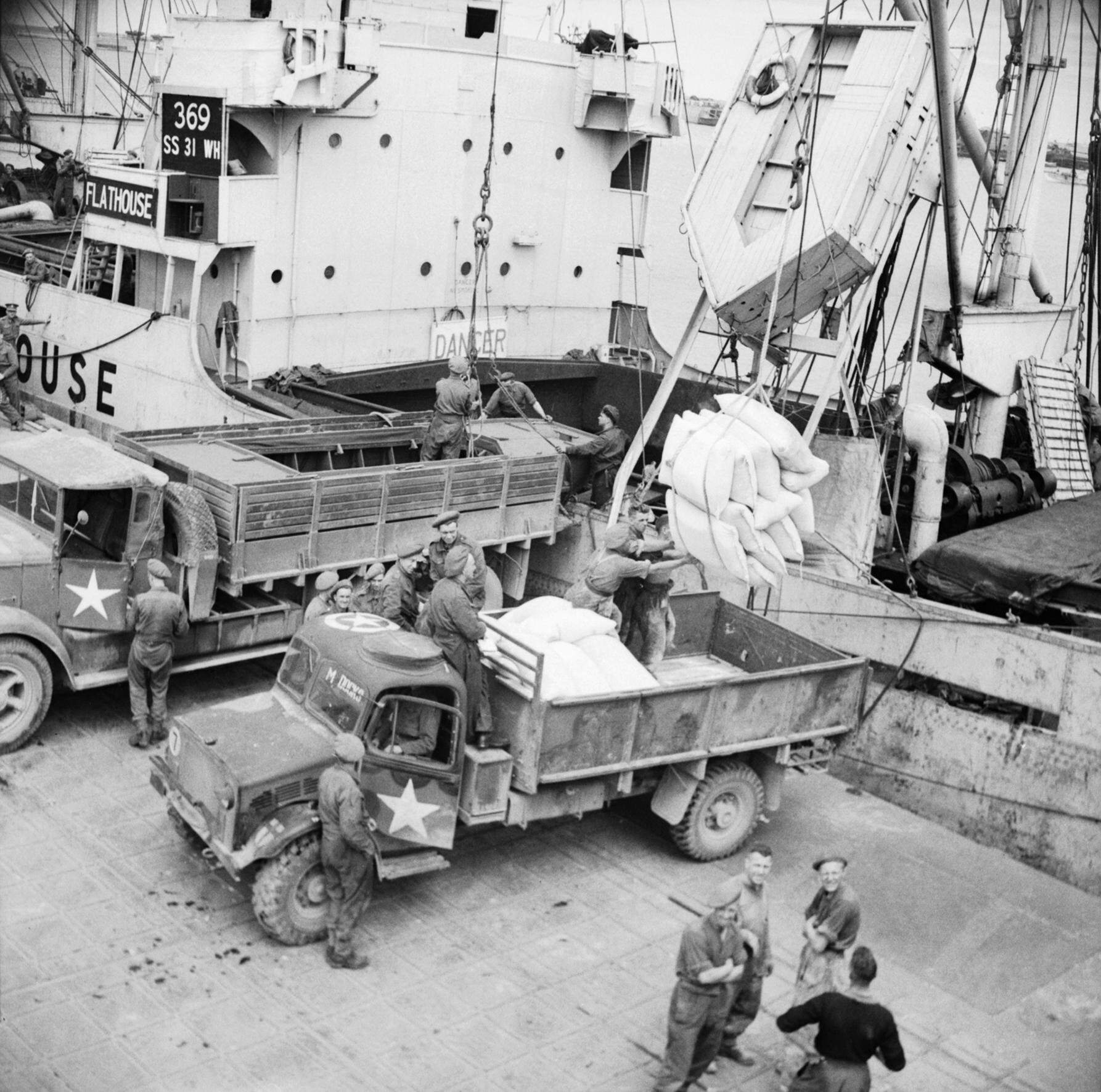 Supplies being unloaded from a ship at the Mulberry artificial harbour at Arromanches in Normandy, July 1944. Unloading a ship at Mulberry B, July 1944.